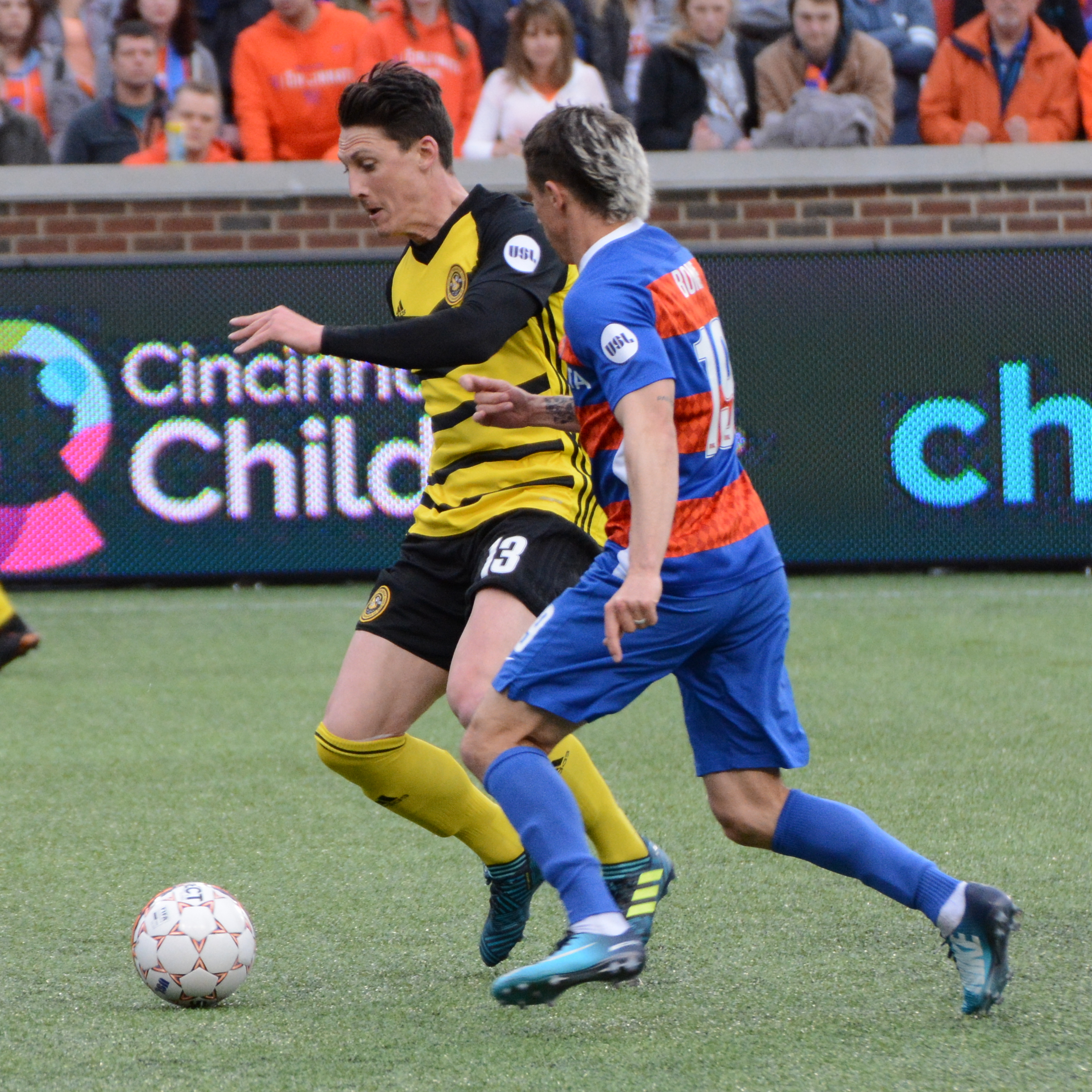 Taken during a USL regular season match between FC Cincinnati and Pittsburgh Riverhounds at Nippert Stadium in Cincinnati, USA on April 21, 2018.